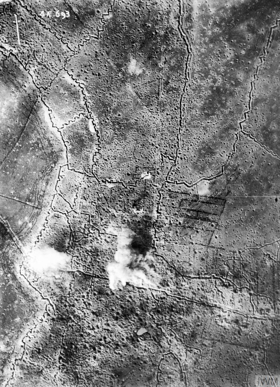 Vertical aerial photograph of Thiepval village, Somme, France, and German front-line and support trenches, while undergoing bombardment by British artillery. This was part of the British preparation for the Battle of Thiepval Ridge North is approximately at top. See also same area on 01-06-1916 : File:Thiepval aerial photograph 01-06-1916 IWM HU 91108.jpg